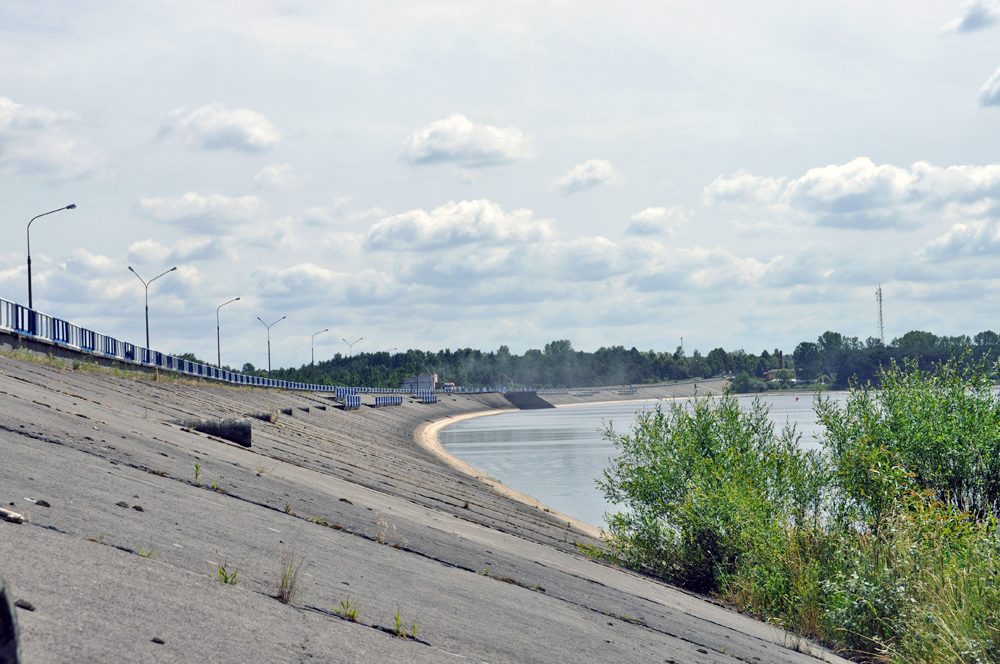 Sulejowski Reservoir Dam